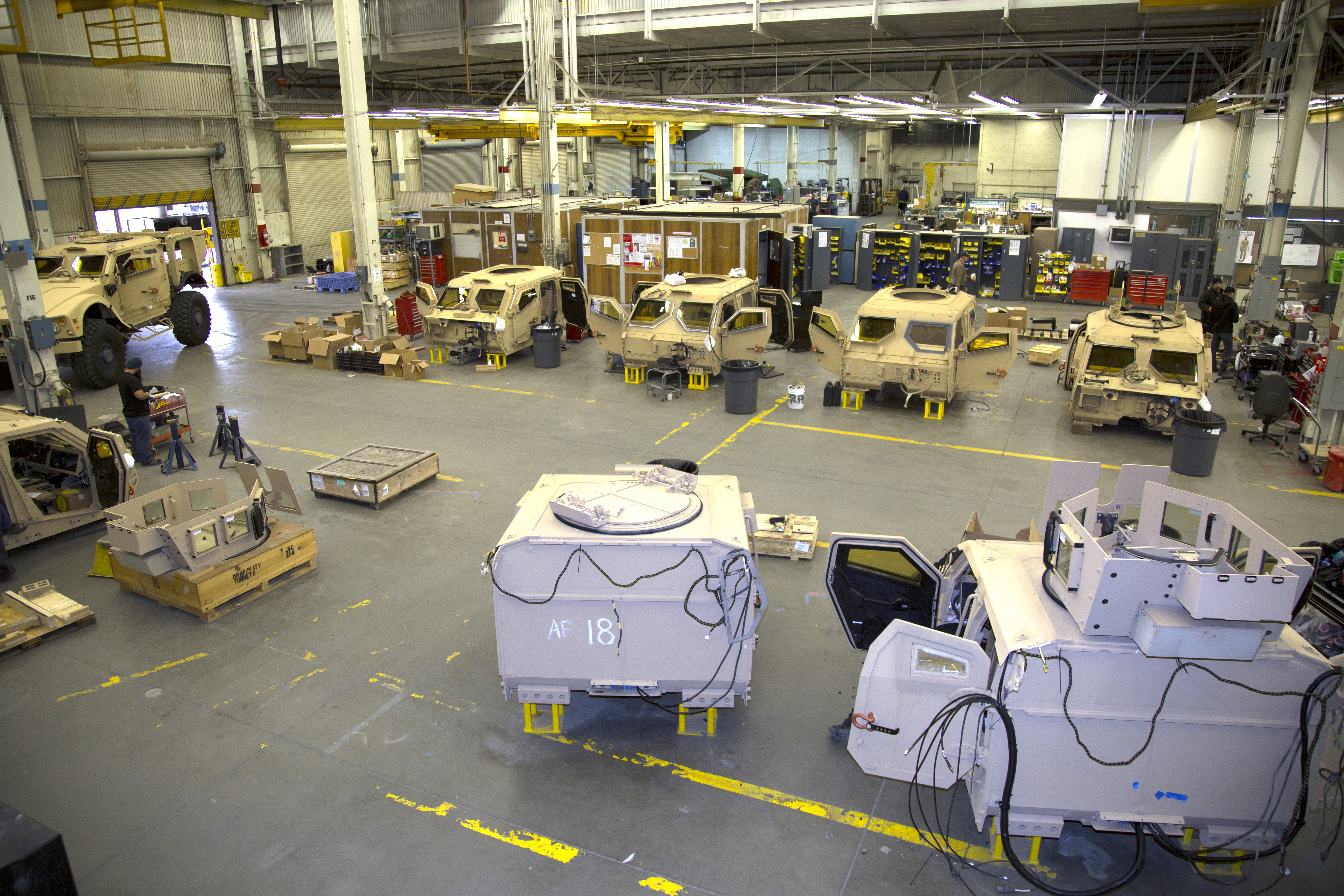 Crew capsules of several Mine Resistant Ambush Protected All Terrain Vehicles, or M-ATV, sit awaiting repair and upgrade at Production Plant Barstow, Marine Depot Maintenance Command, on the Yermo Annex of Marine Corps Logistics Base Barstow, Jan. 12. The artisans working the M-ATV line are refurbishing the 17 ton vehicles for both the U.S. Air Force and Marine Corps for use in Afghanistan. The formidable M1 Abrams tanks usually used in the field are too wide for the narrow mountain roads found in abundance in that region. Unit: Marine Corps Logistics Base Barstow DVIDS Tags: #IED; #M-ATV; #MRAP. #ProductionPlantBarstow; #MarineCorpsLogisticsBaseBarstow